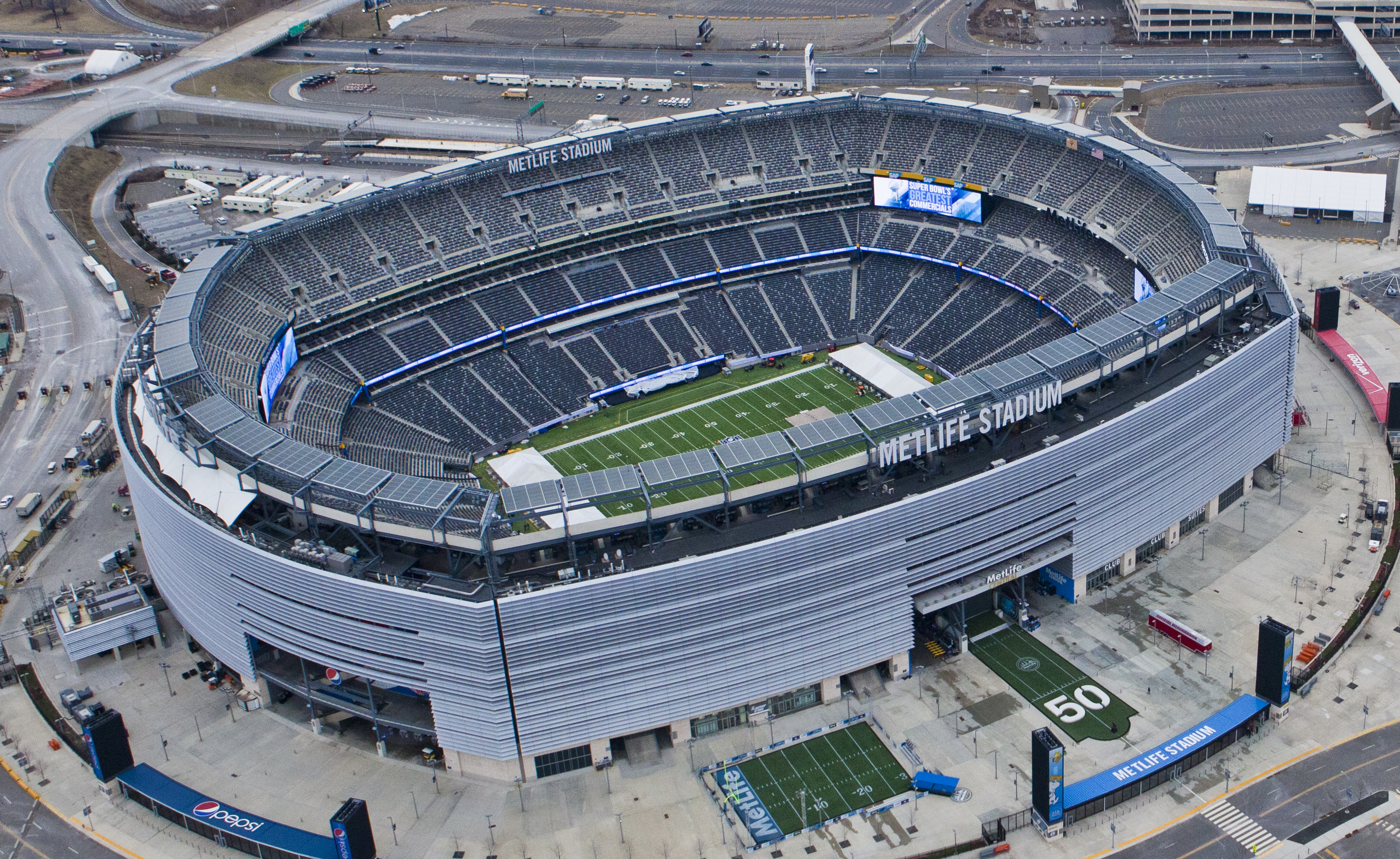 Flight courtesy of